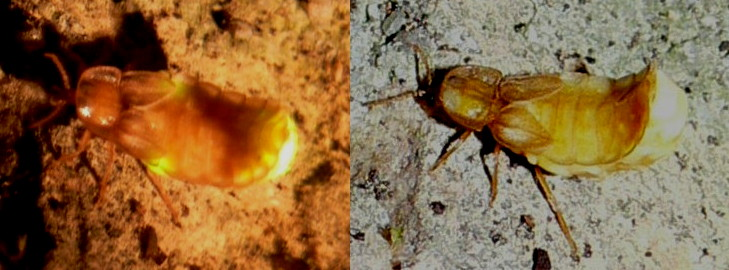 Firefly, France 2006.